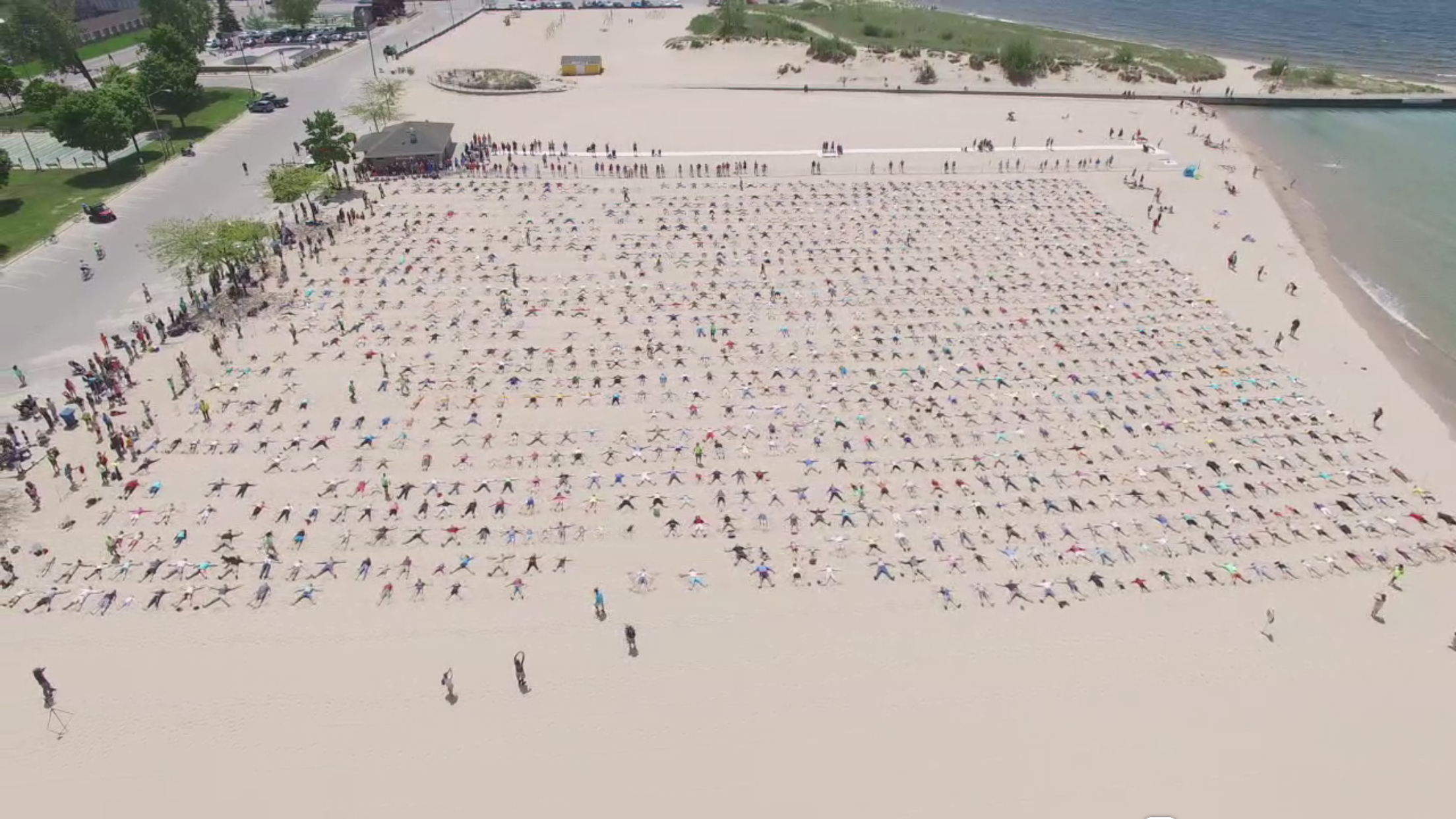 World's record of 1,387 Ludington (Michigan) Sand Angels of June 10, 2017